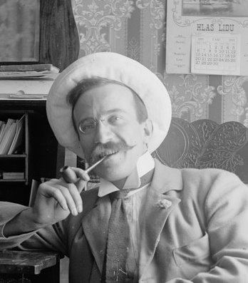 Jaroslav Charfreitag in New York, 1902